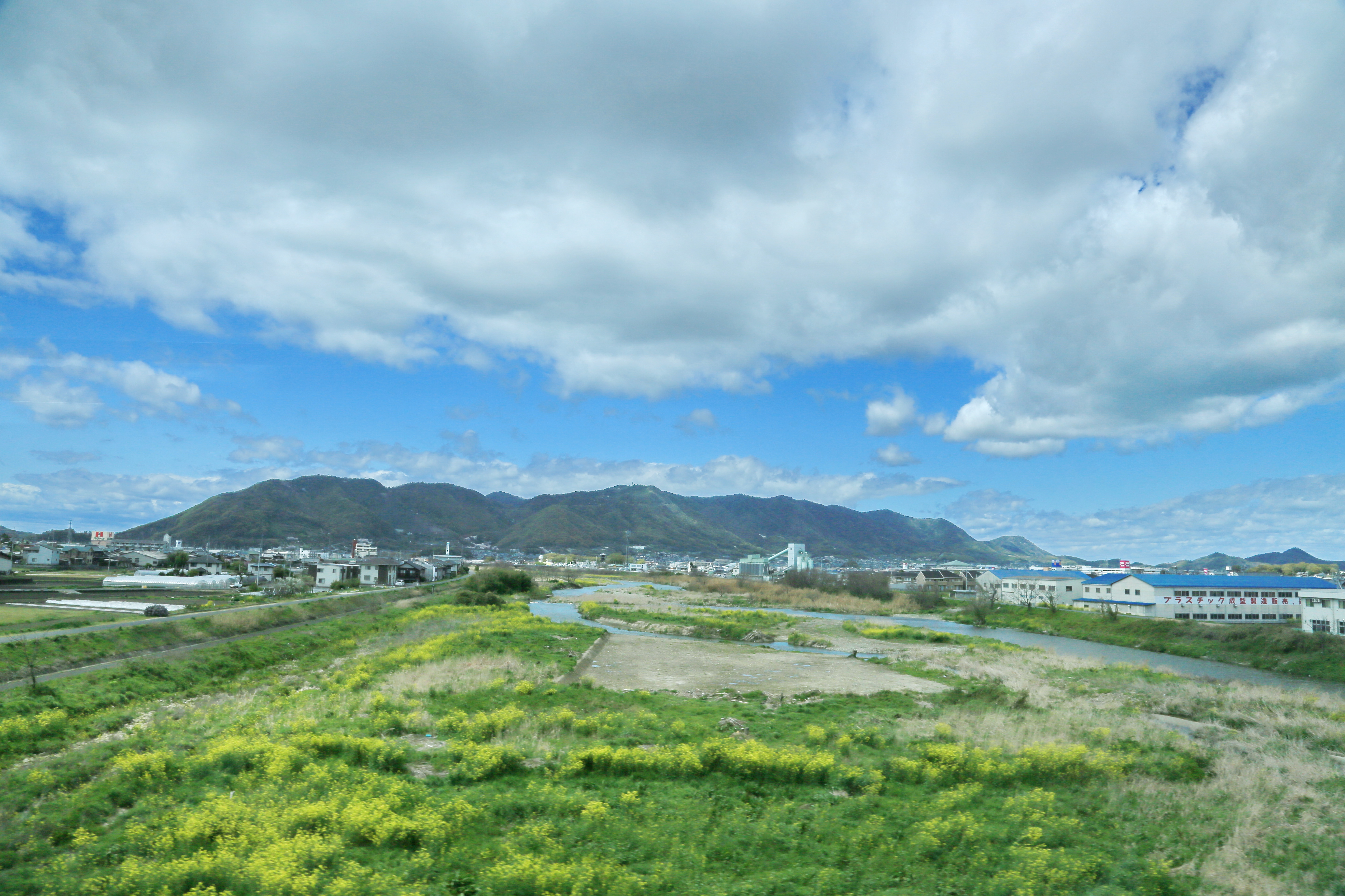 View from TAKAMATSU EXPRESSWAY in Mitoyo city, Kagawa pref Japan